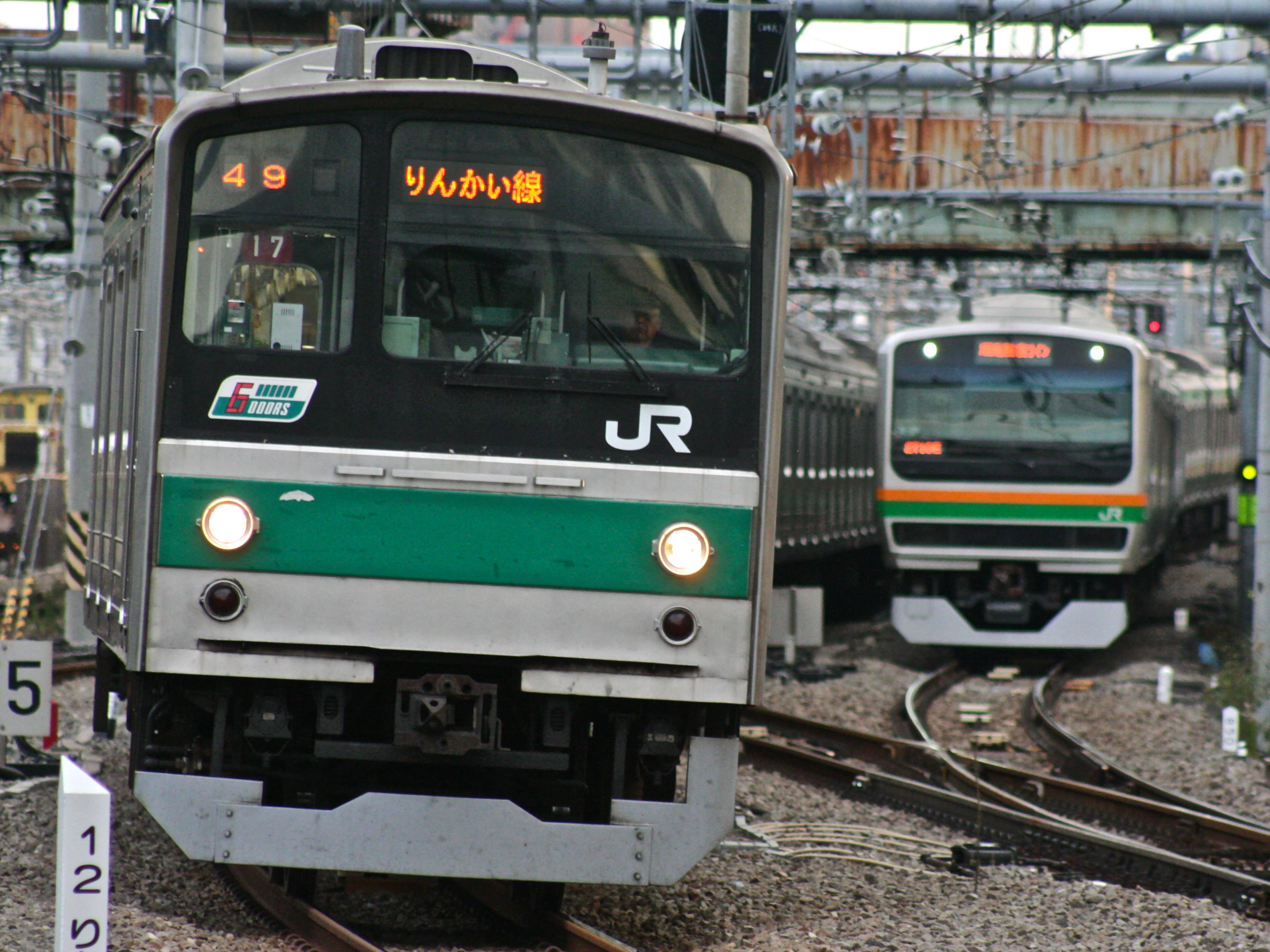 Osaki Station